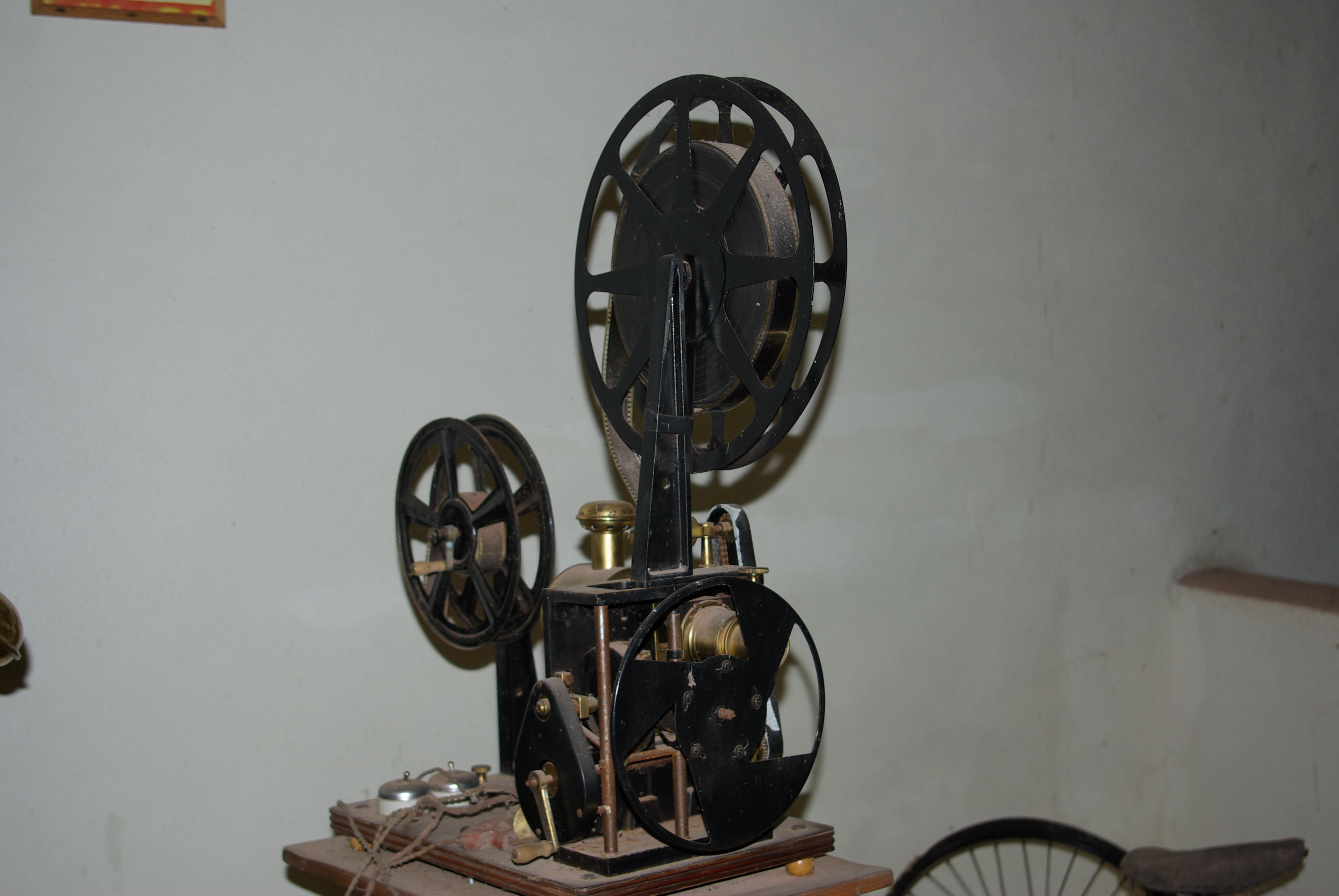 A film projector made by Path-Frères en 1910. Exhibited in museum Maurice Dufresne (Azay-le-Rideau, Indre-et-Loire, France).